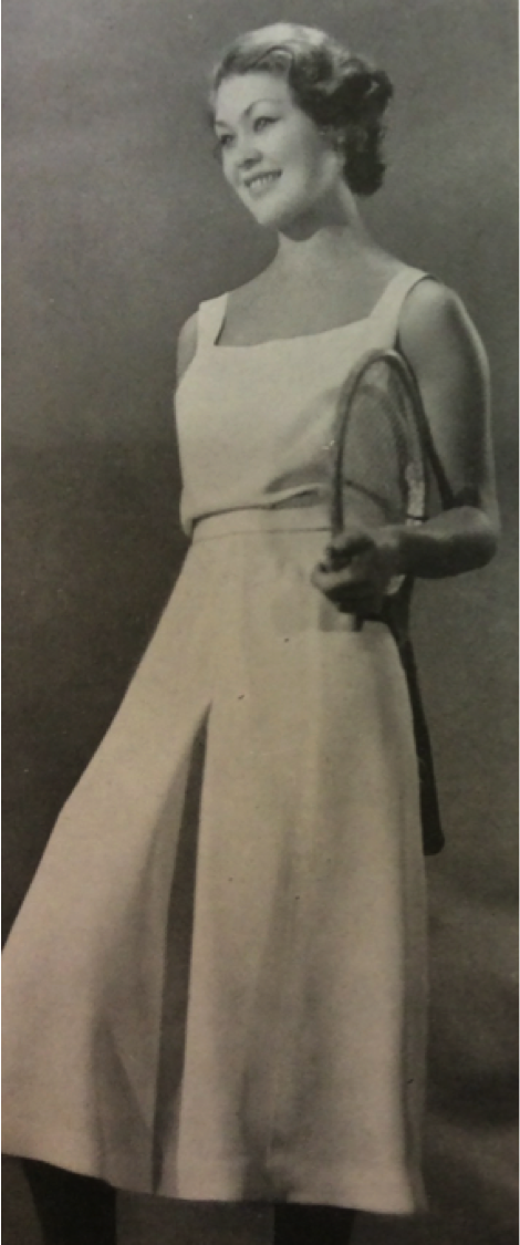 VERA BOREA - CULOTTES DRESS for TENNIS - 1934